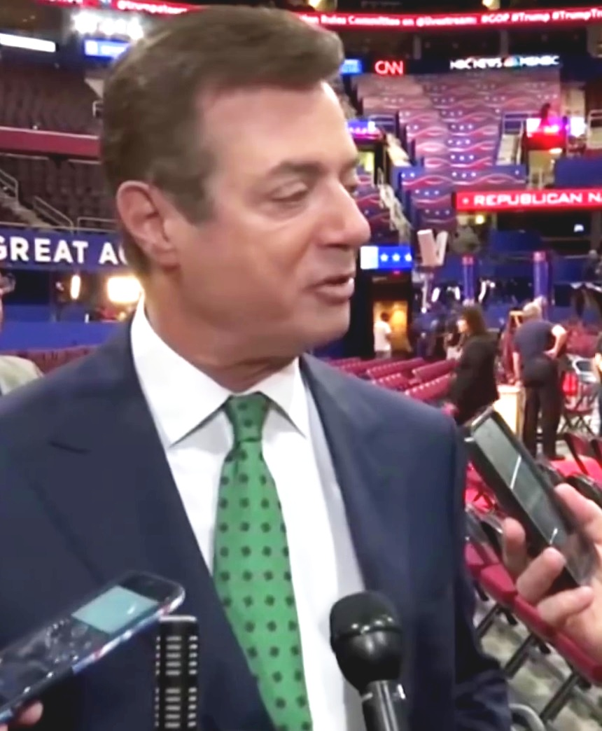 Paul Manafort, then-chair of the Donald Trump 2016 US presidential campaign, speaks with the media at Quicken Loans Arena in Cleveland, the site of the 2016 Republican National Convention. This was from July 17, 2016 based on Associated Press accounts of this day, quoting Manafort in this July 17, 2016 article: "We want America to understand who Donald Trump the man is, not just Donald Trump the candidate." This July 17, 2016 photo shows Manafort in the same setting and clothes.